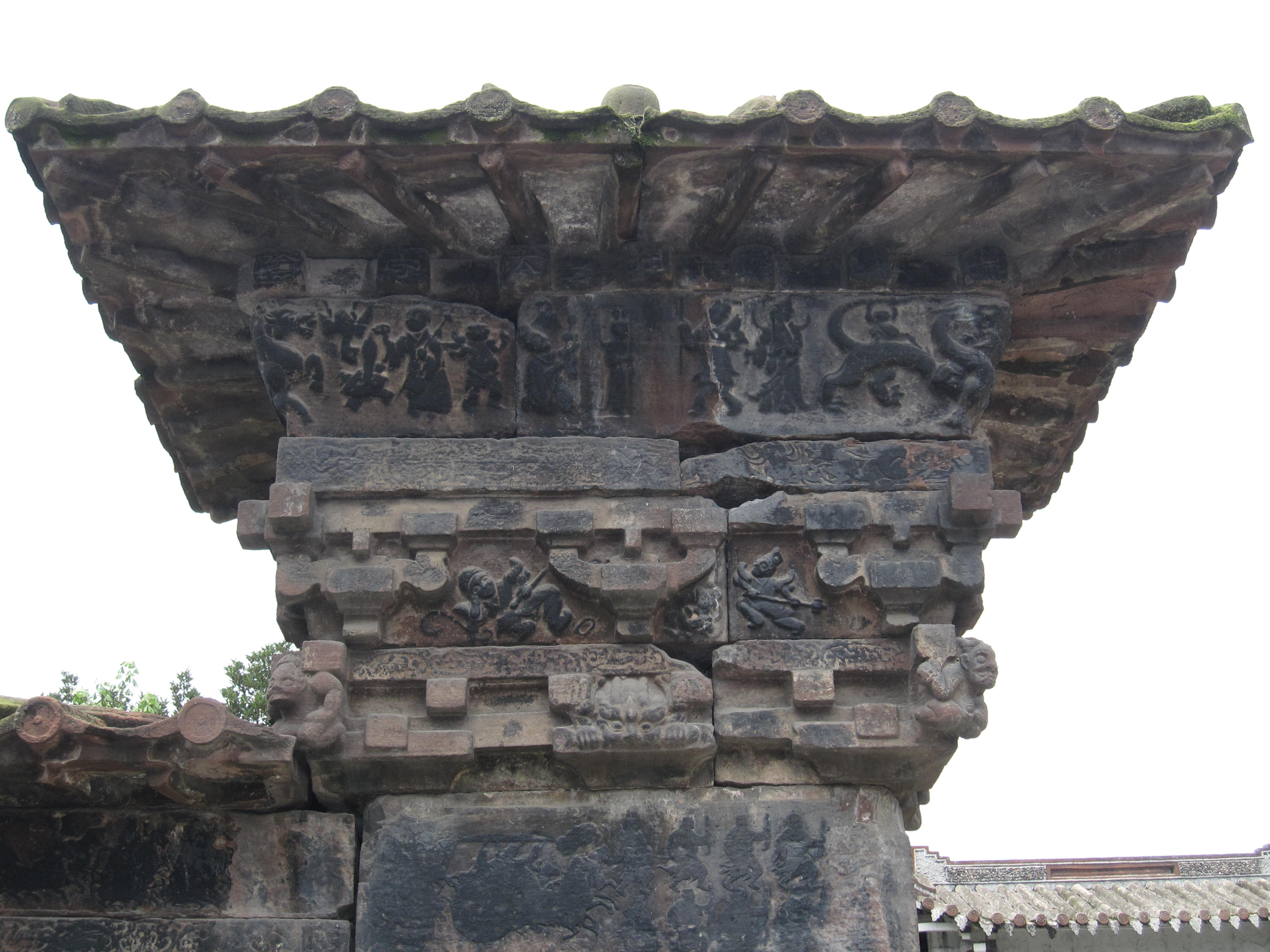 Top of the Gaoyi Que, a stone-carved pillar-gate (que, 闕), located at the tomb of Gao Yi in Ya'an, Sichuan, China, from the Eastern Han Dynasty (25-220 AD).